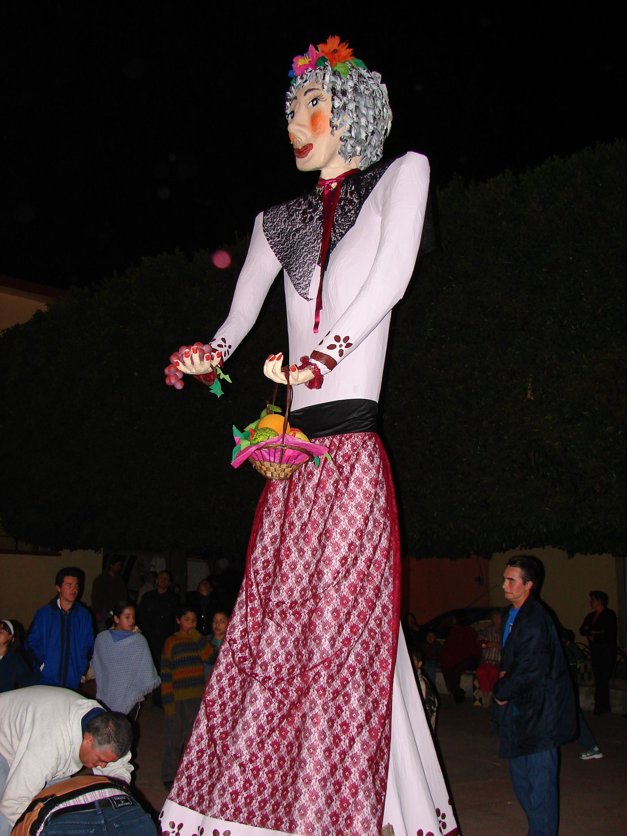 Befana in Chipilo, Puebla, Mexico. To weighing La Befana is a italian celebration, its a tradition celebrated in this locality due to its influence of immigrants of the north of Italy is one.